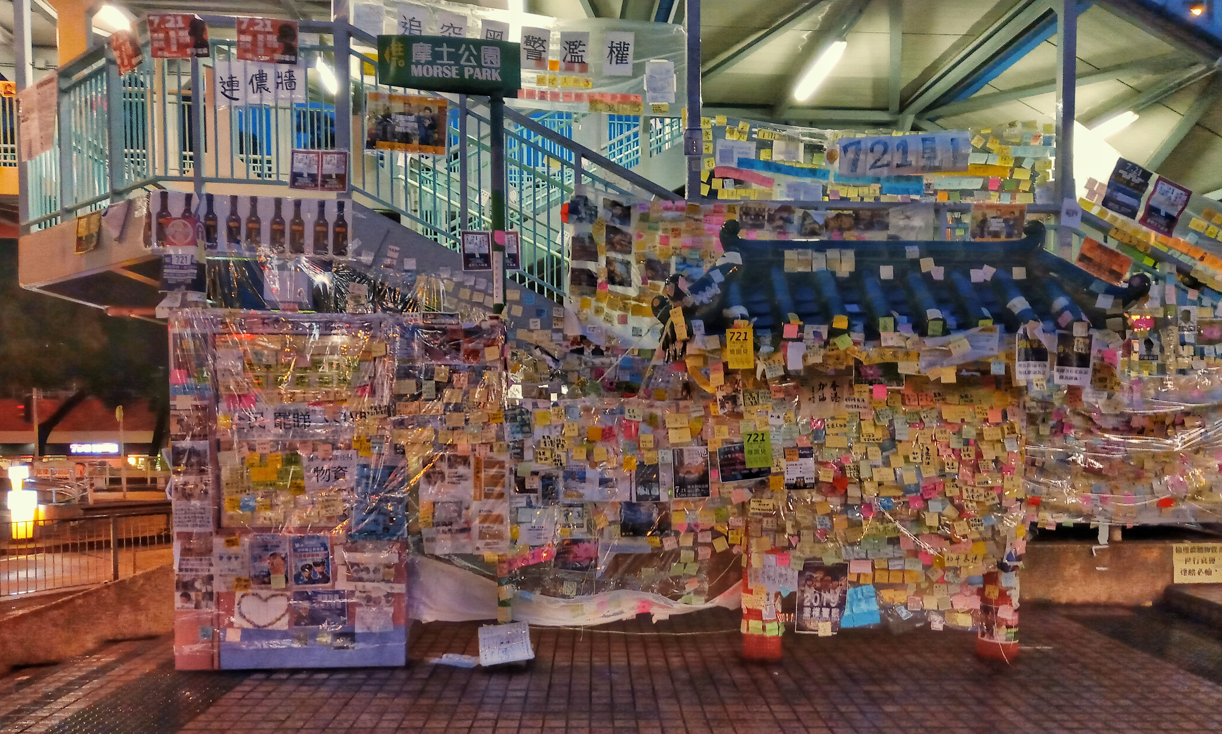 A part of Lennon Wall near Lok Fu MTR station 中文（香港）: 樂富地鐵站附近的部分的連儂牆